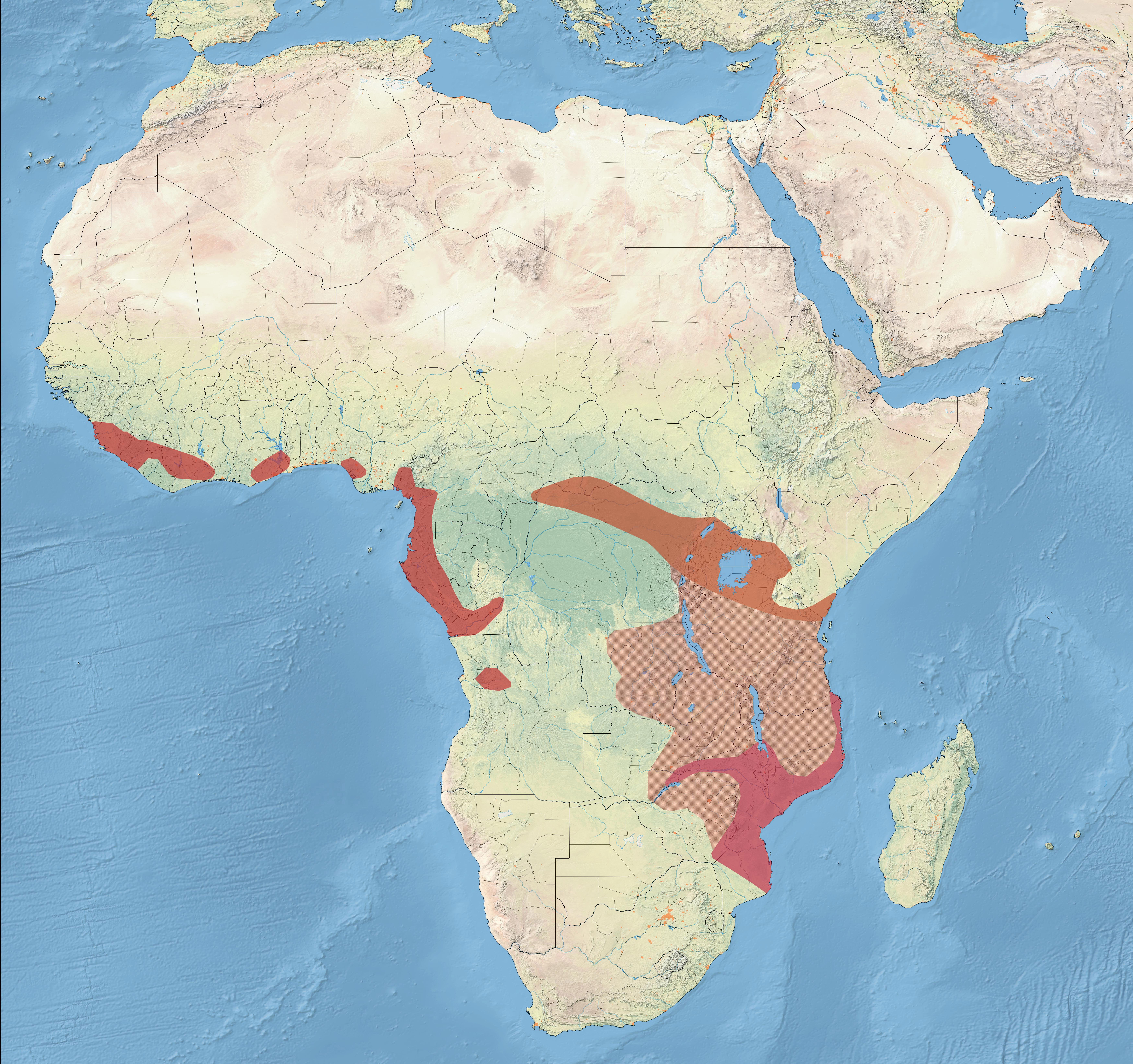 The IUCN Distribution of African Pitta Maroon = Resident Purple = Breeding Orange = Non-breeding Hatched = Passage Grey = Possibly Extinct Blue = Introduced